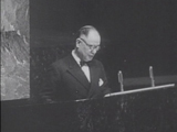 Mamoru Shigemitsu giving acceptance speech at the UN General Assembly after Japan was admitted at its 80th member nation.